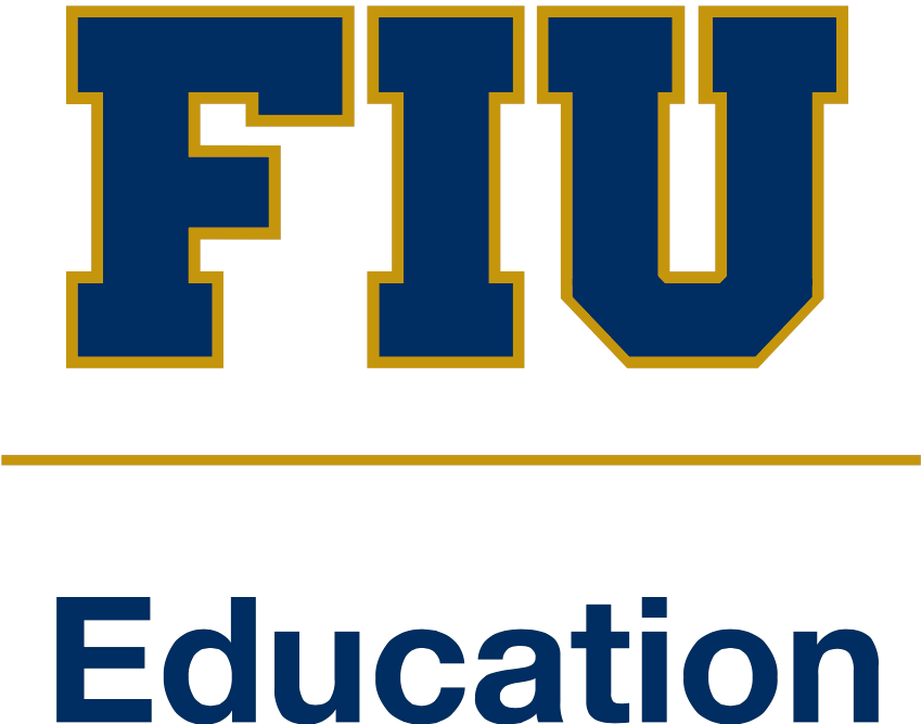 Logo for the Florida International University College of Education.